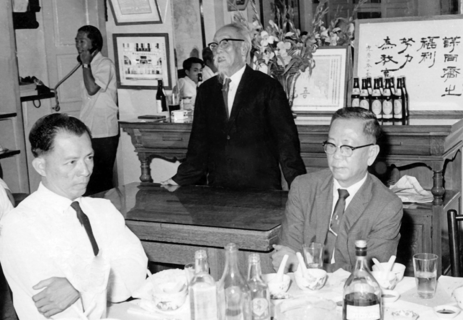 Seok Kim at Aik Tee's 50th Anniversary, 1962; Book: No Other Way Out - A Biography of Ong Seok Kim. PJ, Malaysia; Authors: Wang Jianshi, Ong Eng-Joo; Publisher: Strategic Information and Research Development Centre, 2013; Site